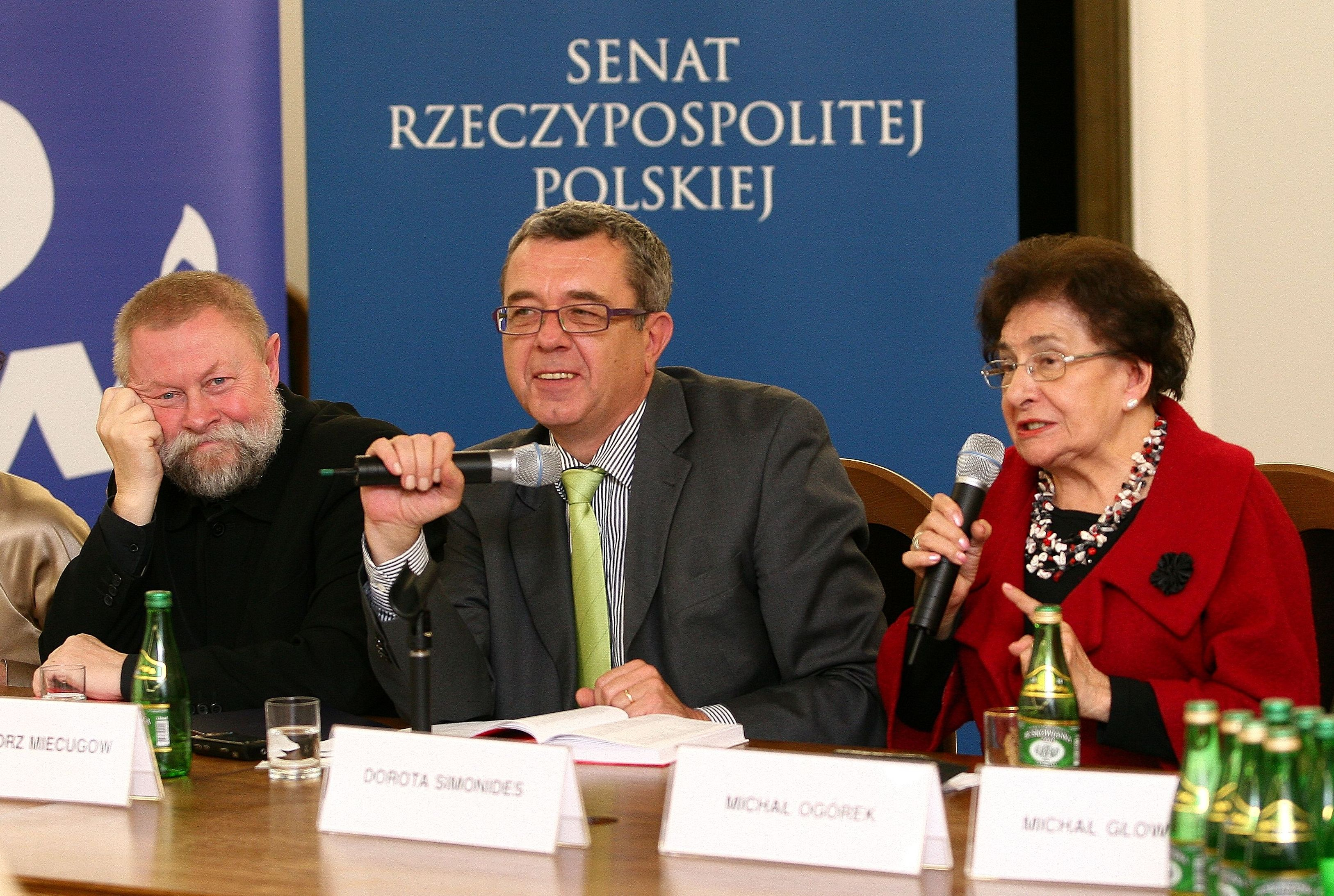 Jerzy Bralczyk, Grzegorz Miecugow and Dorota Simonides during the discussion panel "Language of Polish politics after 1989" in the Polish Senate